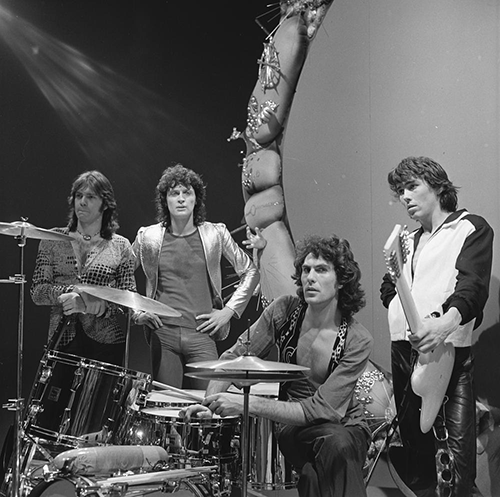 Golden Earring in AVRO's TopPop (Dutch television show) in 1974